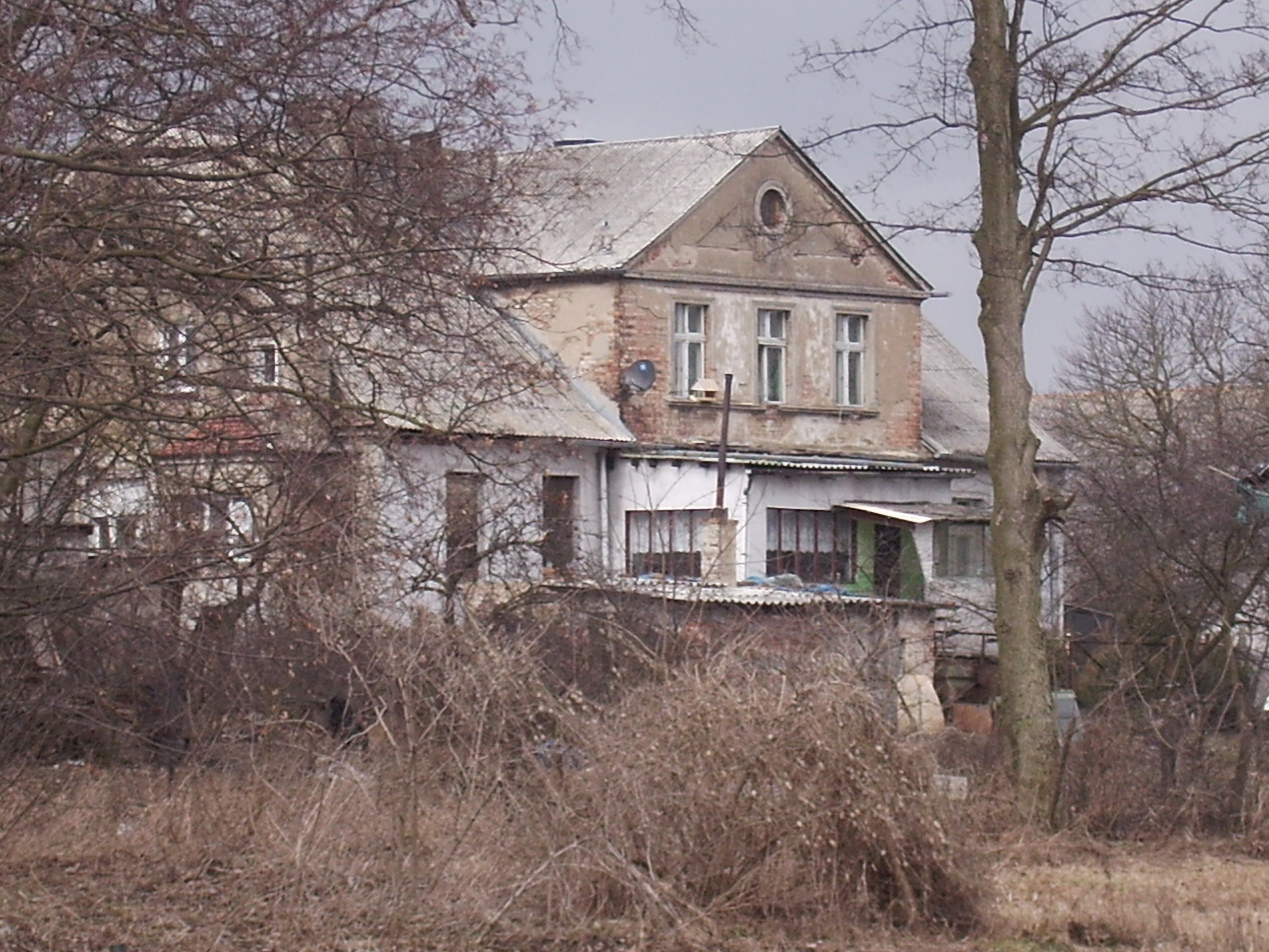 Manor in Nowy Dwór Królewski